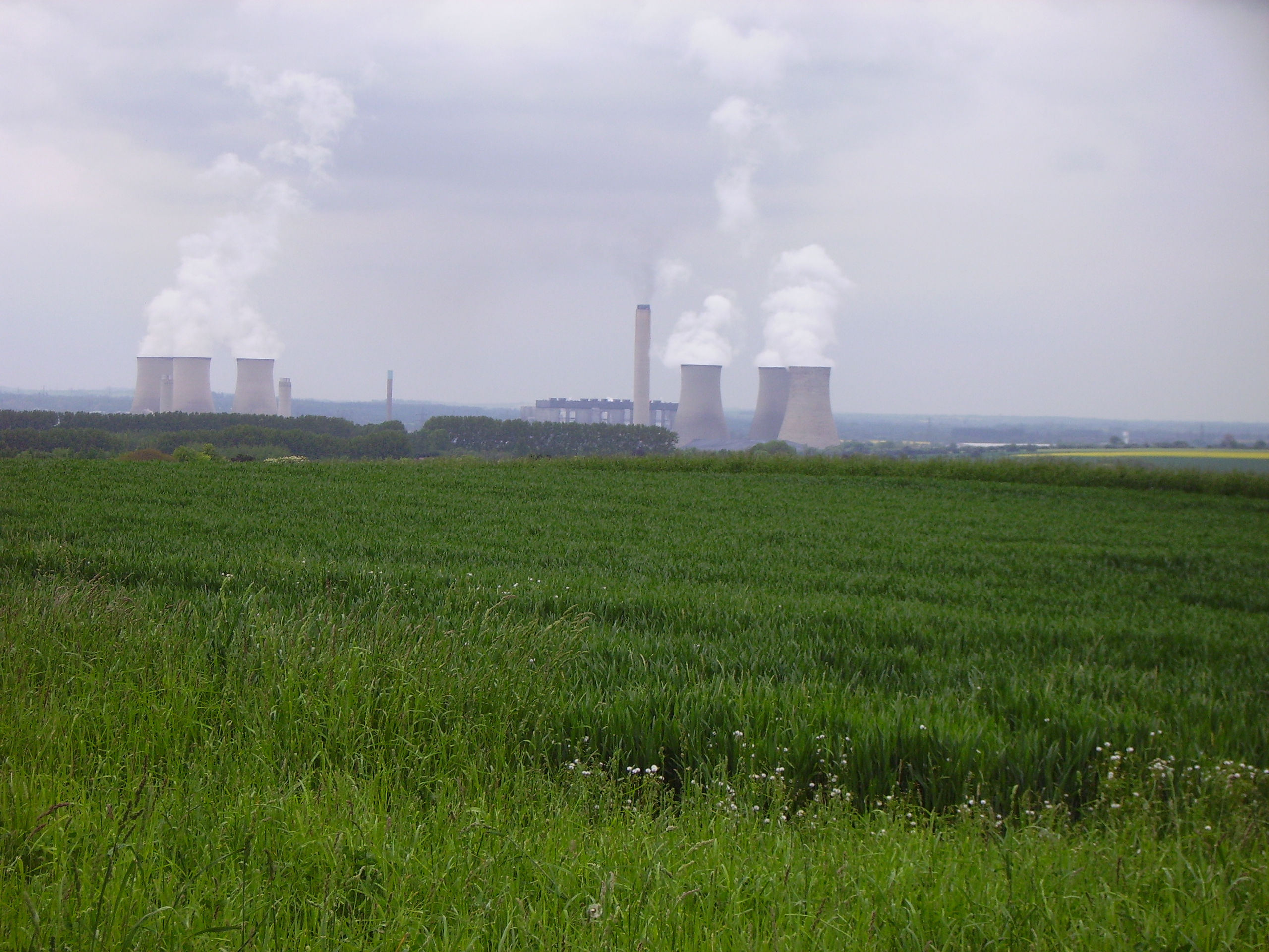 Photographer: User:Ballista